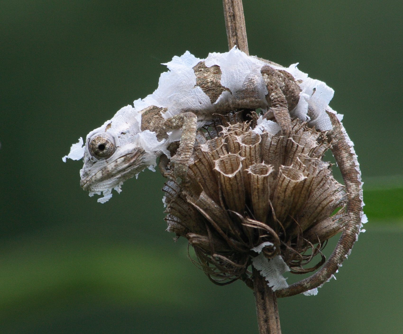 KwaZulu dwarf chamaeleon (Bradypodion melanocephalum) moulting; on a seed head of Leonotis leonurus in Queen Elizabeth Park, Pietermaritzburg, KwaZulu-Natal.